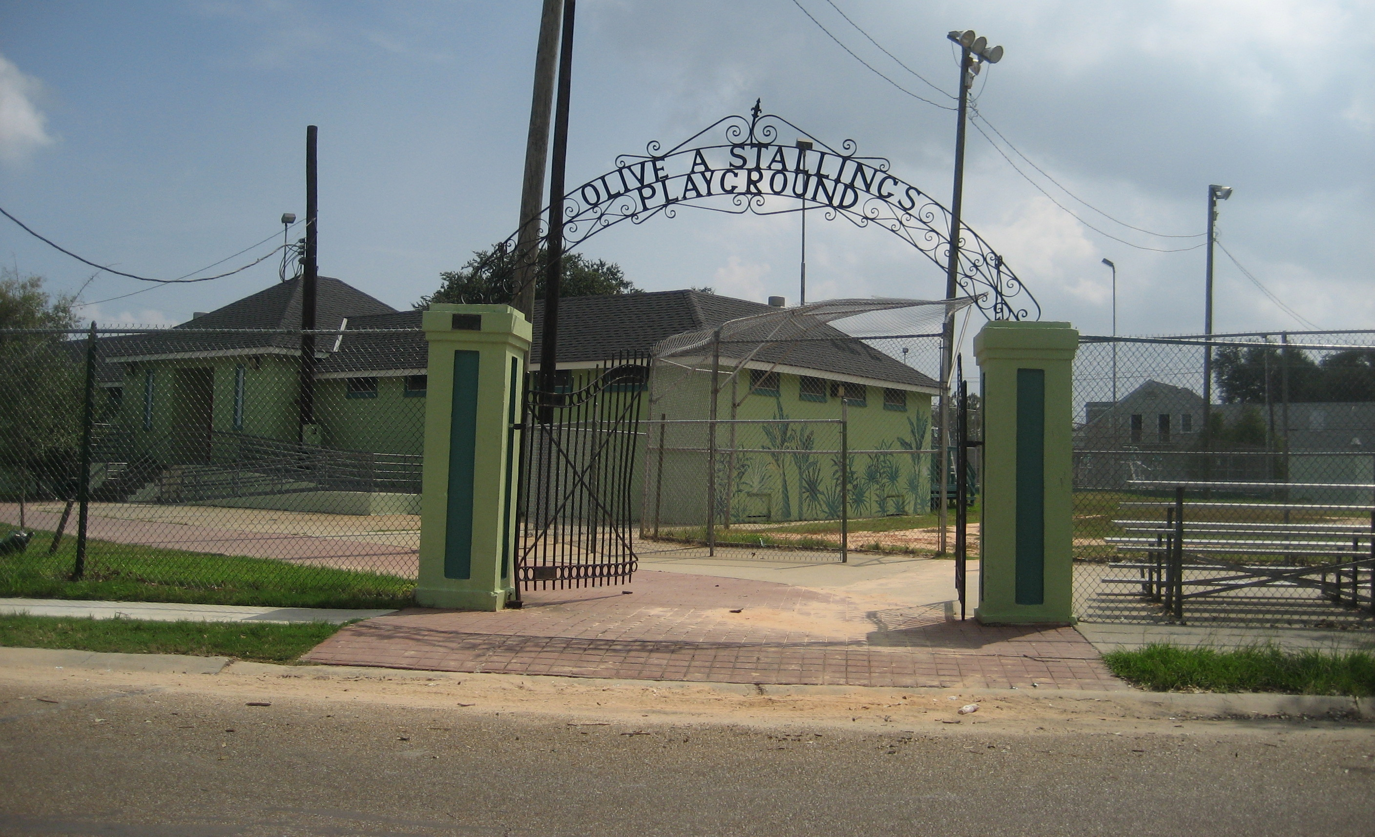 New Orleans: Entrance to Olive Stallings Playground on Gentilly Boulevard